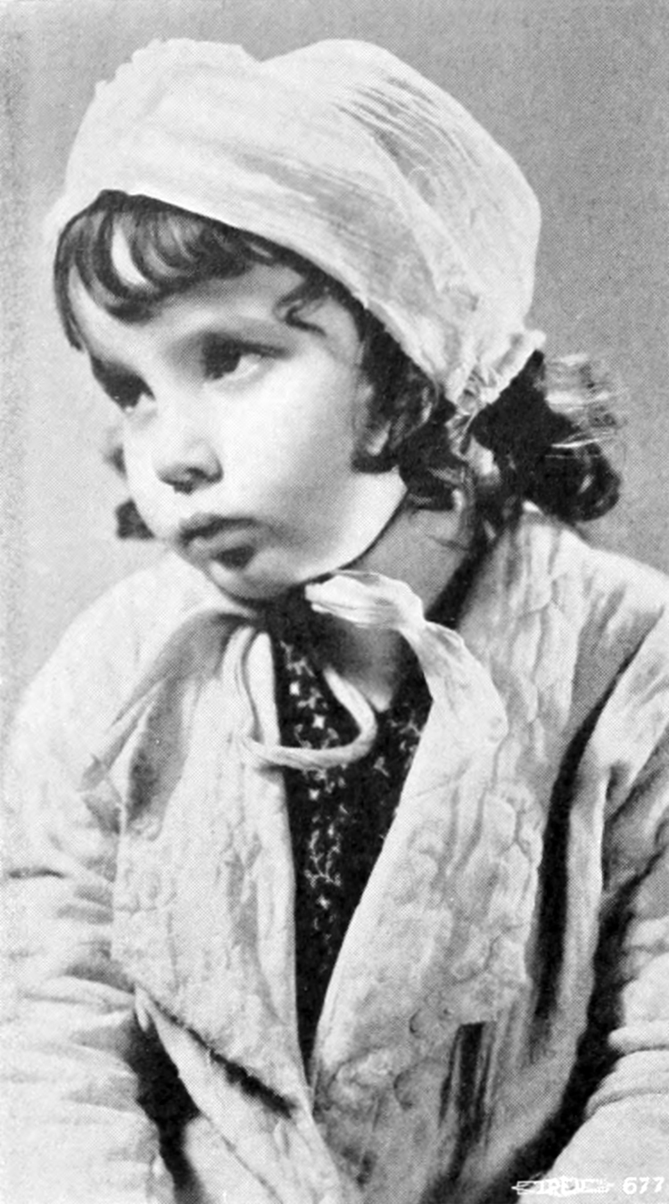 Portrait photograph of child actress Cora Sue Collins